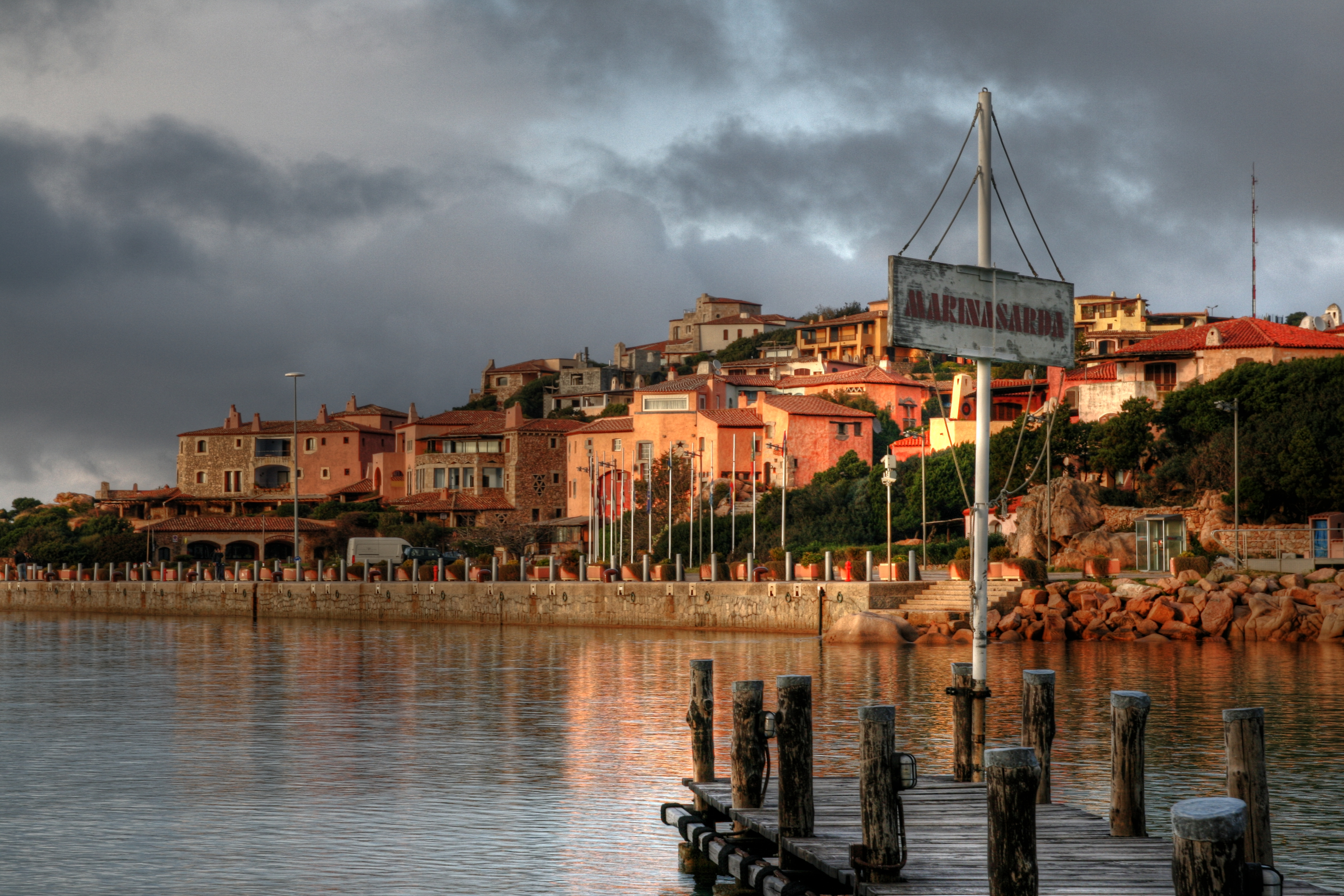 Porto Cervo, Sardinia